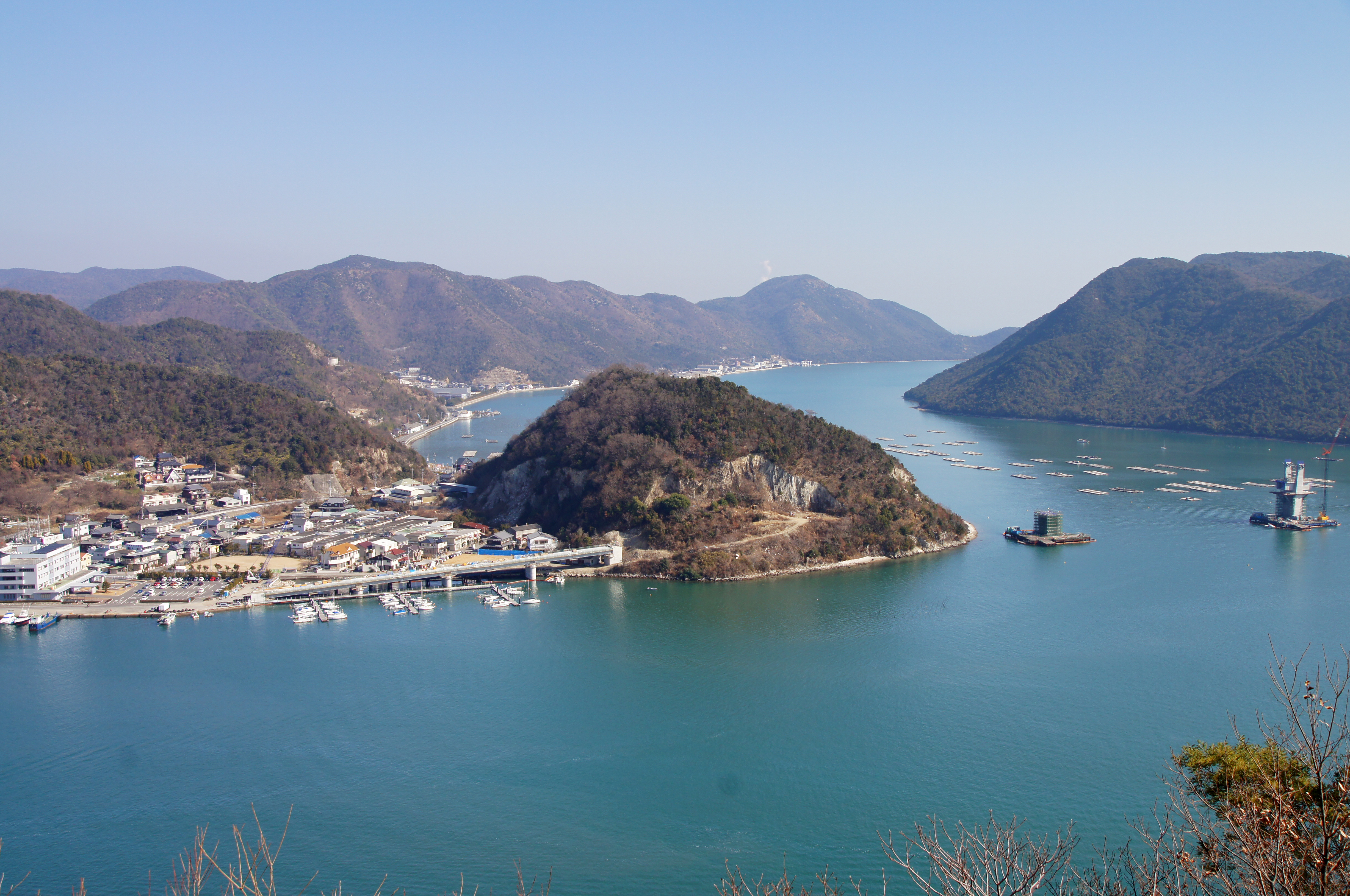 Hinase Bay at Hinase, Bizen, Okayama prefecture, Japan